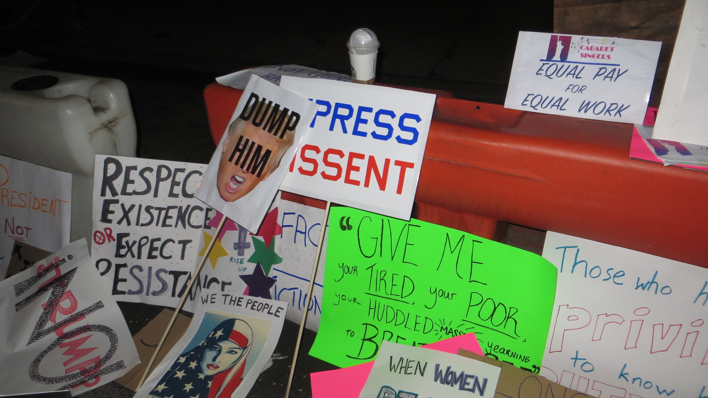 Women's March NYC - January 21, 2017